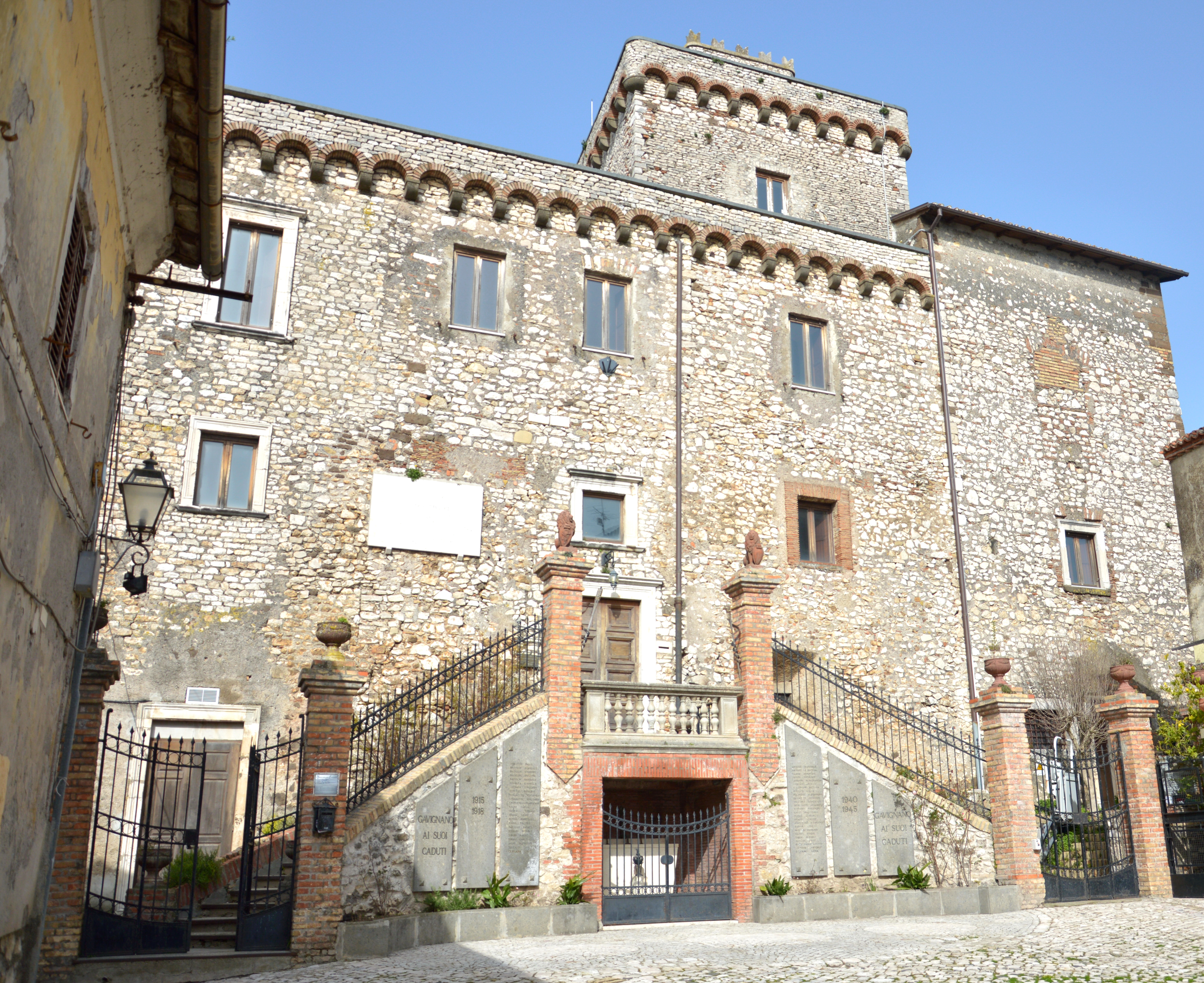 Gavignano (Rm)